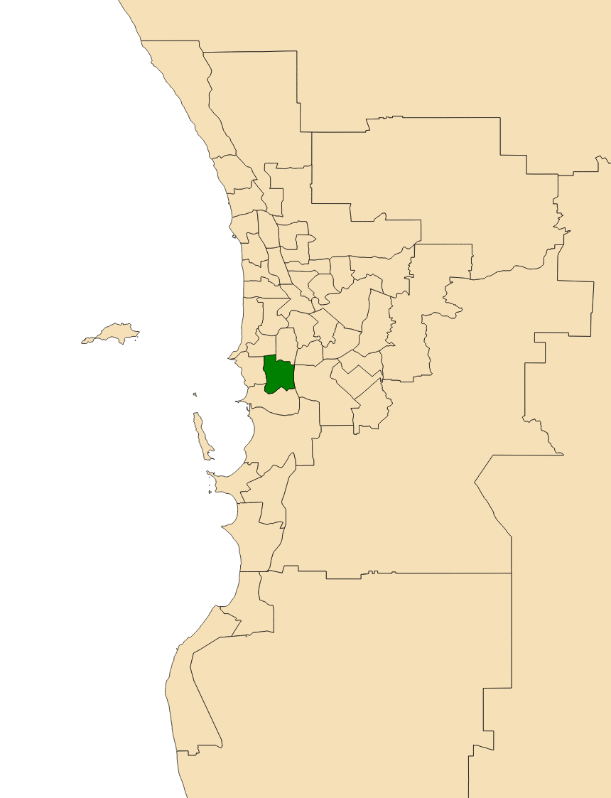 Location of the electoral district of Willagee in the Perth metropolitan area, Western Australia as of the 2017 WA state election.